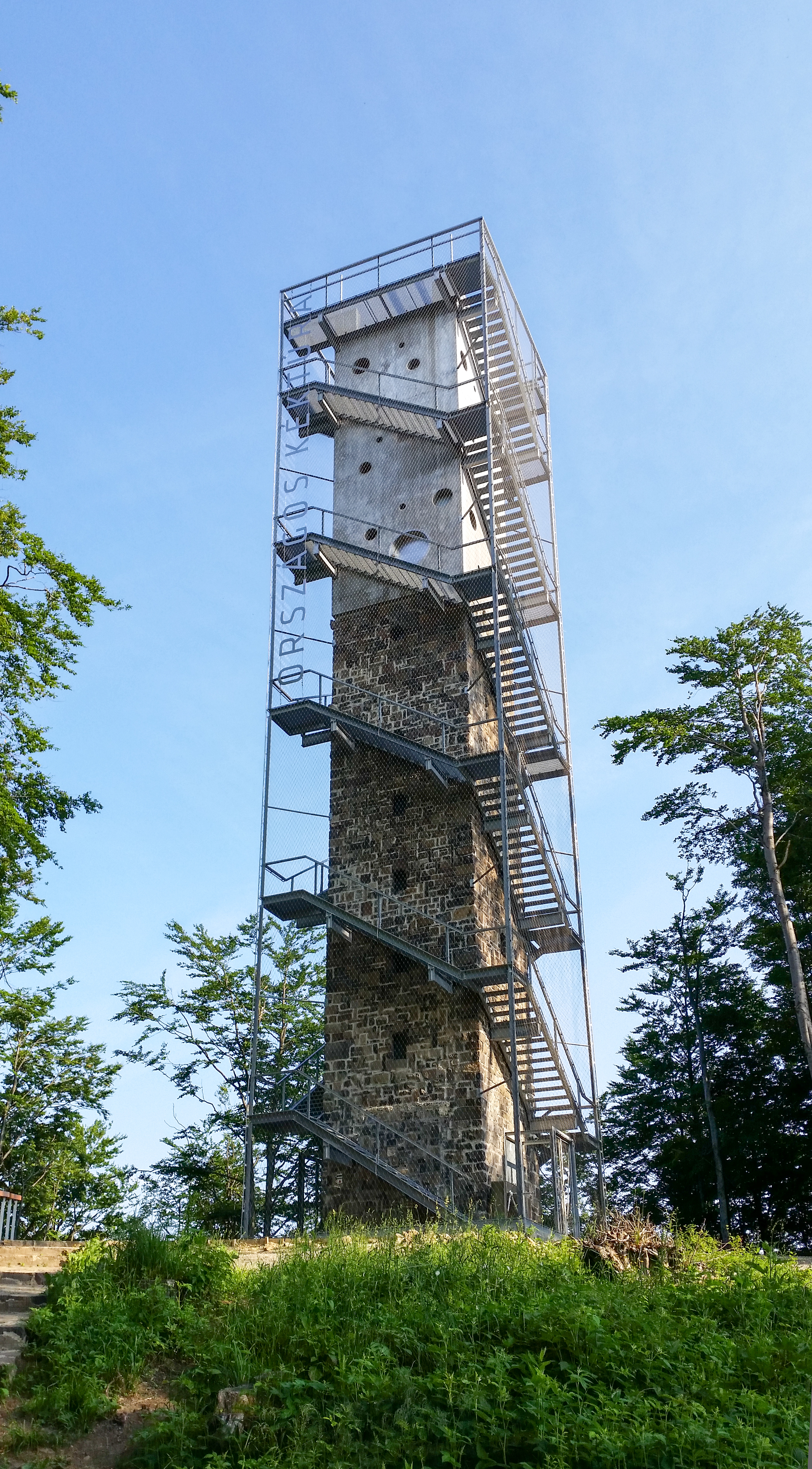 Lookout tower at the top of the mountainlabel QS:Len,"Lookout tower at the top of the mountain" label QS:Lhu,"Galyatetői kilátó"